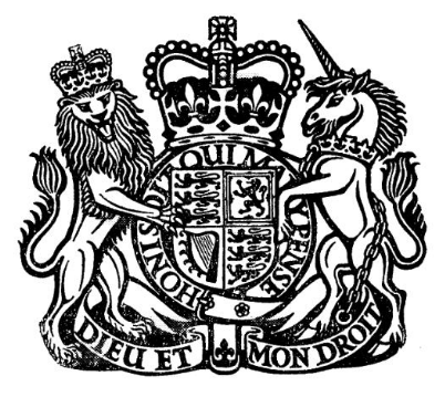 Royal coat of the arms of the United Kingdom, as it appears in the legislative works.